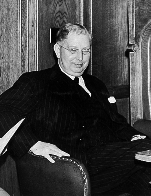 Mental After Care Association AGM, 1956. Sir Russell Brain and Dr. Henry Yellowlees. Archives & Manuscripts